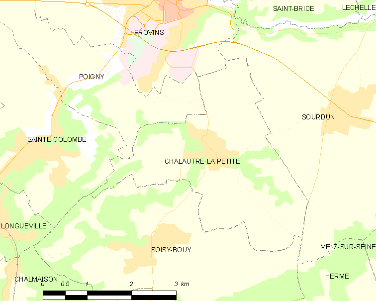 Map of French municipality Chalautre-la-Petite